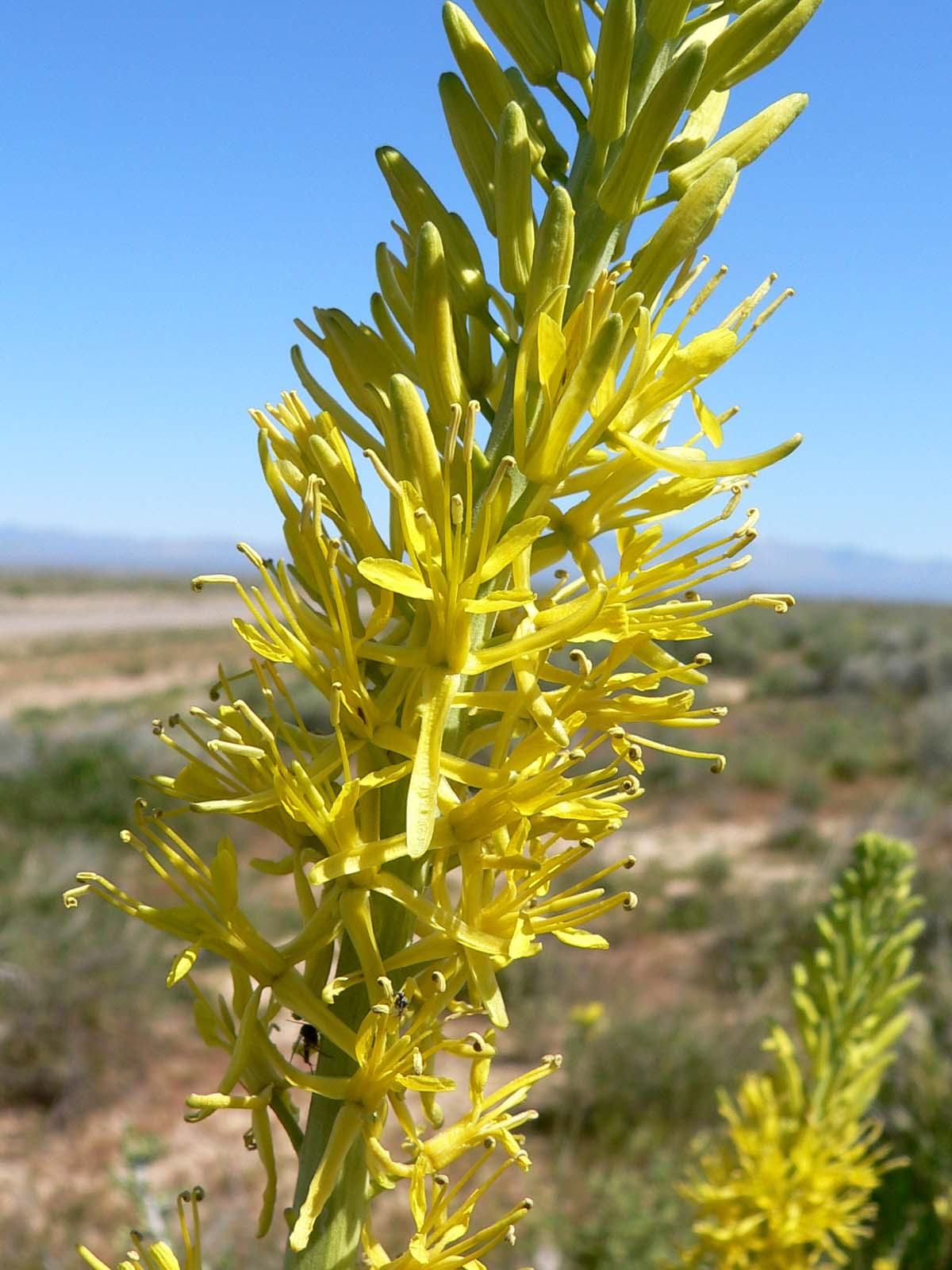 Photo of Stanleya pinnata (prince's plume) on California-Nevada border south of Pahrump